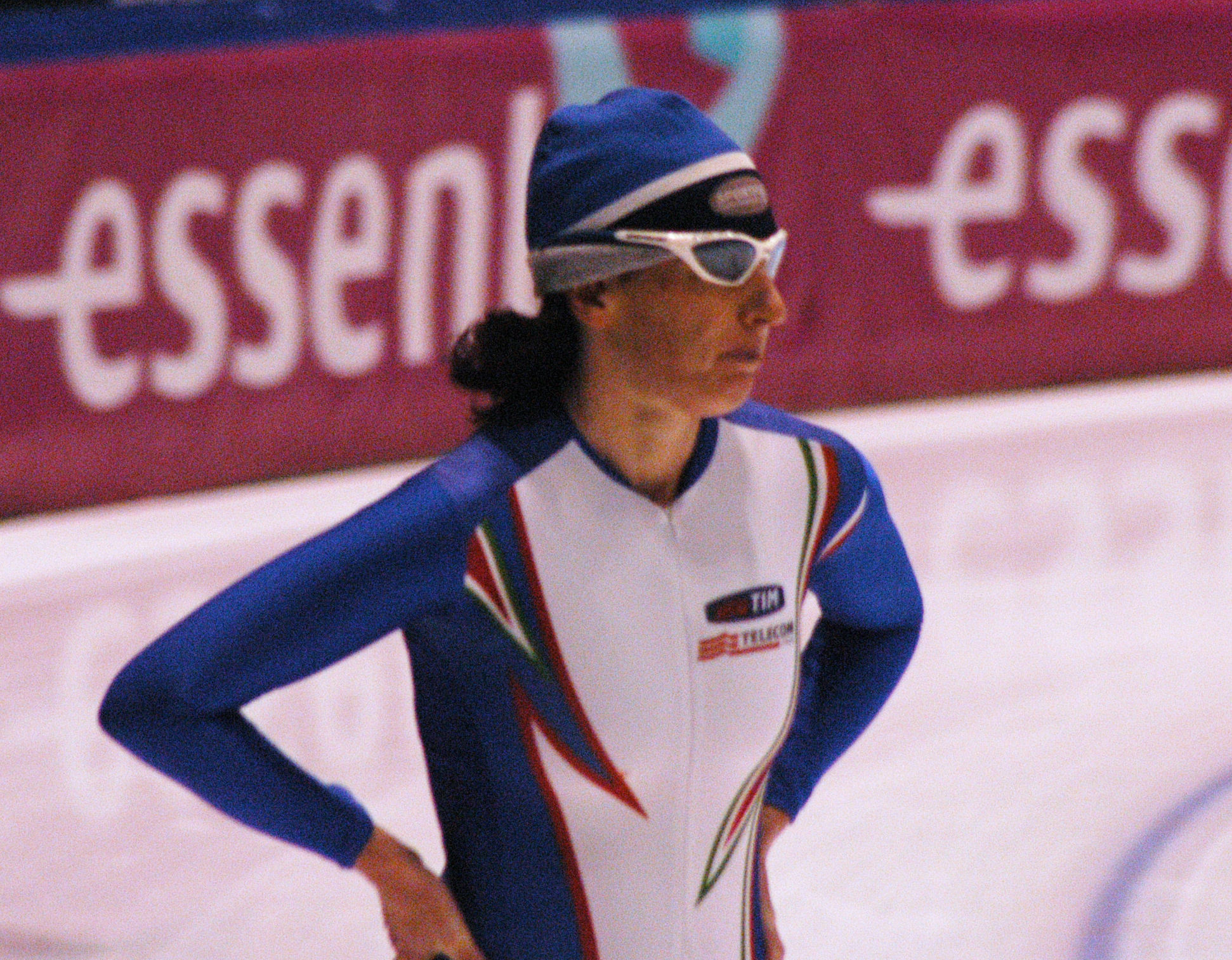 Chiara Simionato (ITA) at a World Cup Speedskating in Heerenveen, the Netherlands